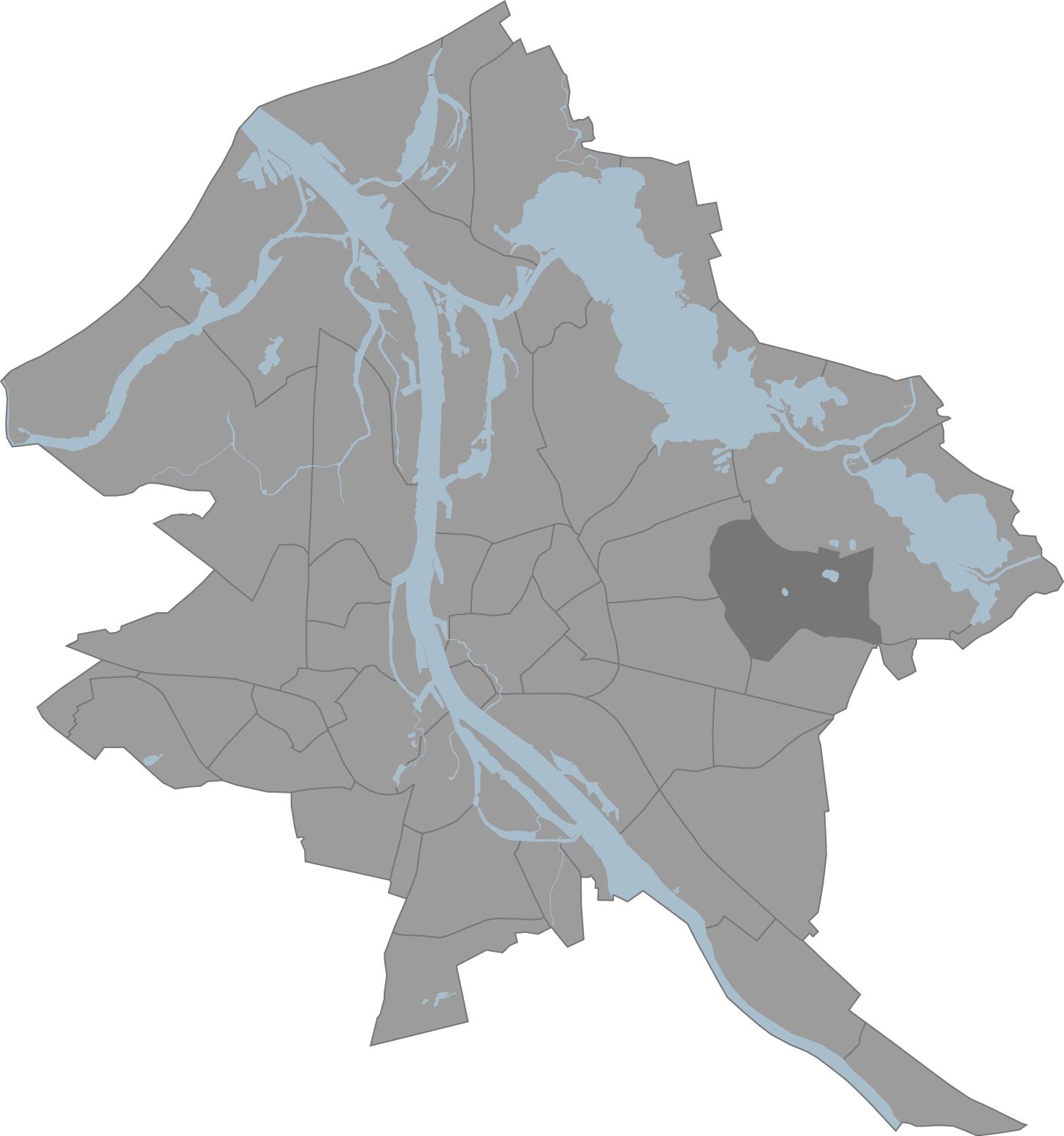 A map of Riga, Latvia with the eponymous commune highlighted